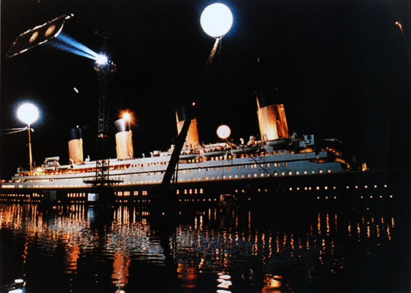 Titanic Movie Cinema shooting. Airstar Lighting balloons.